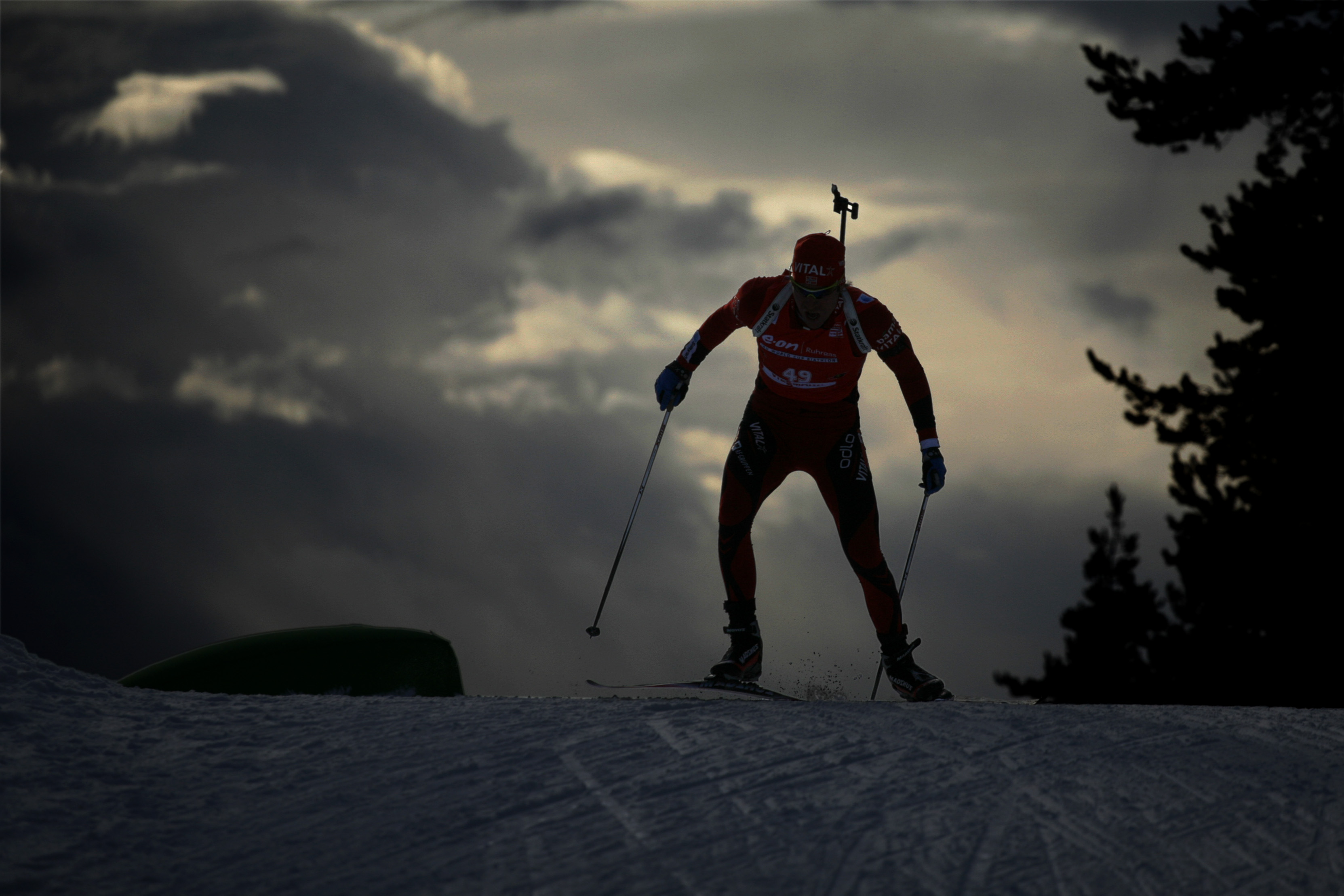 Men 10 km sprint, 13 march 2010, Kontiolahti. Several minutes after Emil Hegle Svendsen will become new World Cup leader.